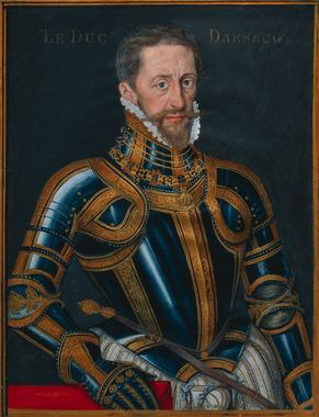 Portrait of Philippe III de Croÿ (1526-1595) (ca. 1575).